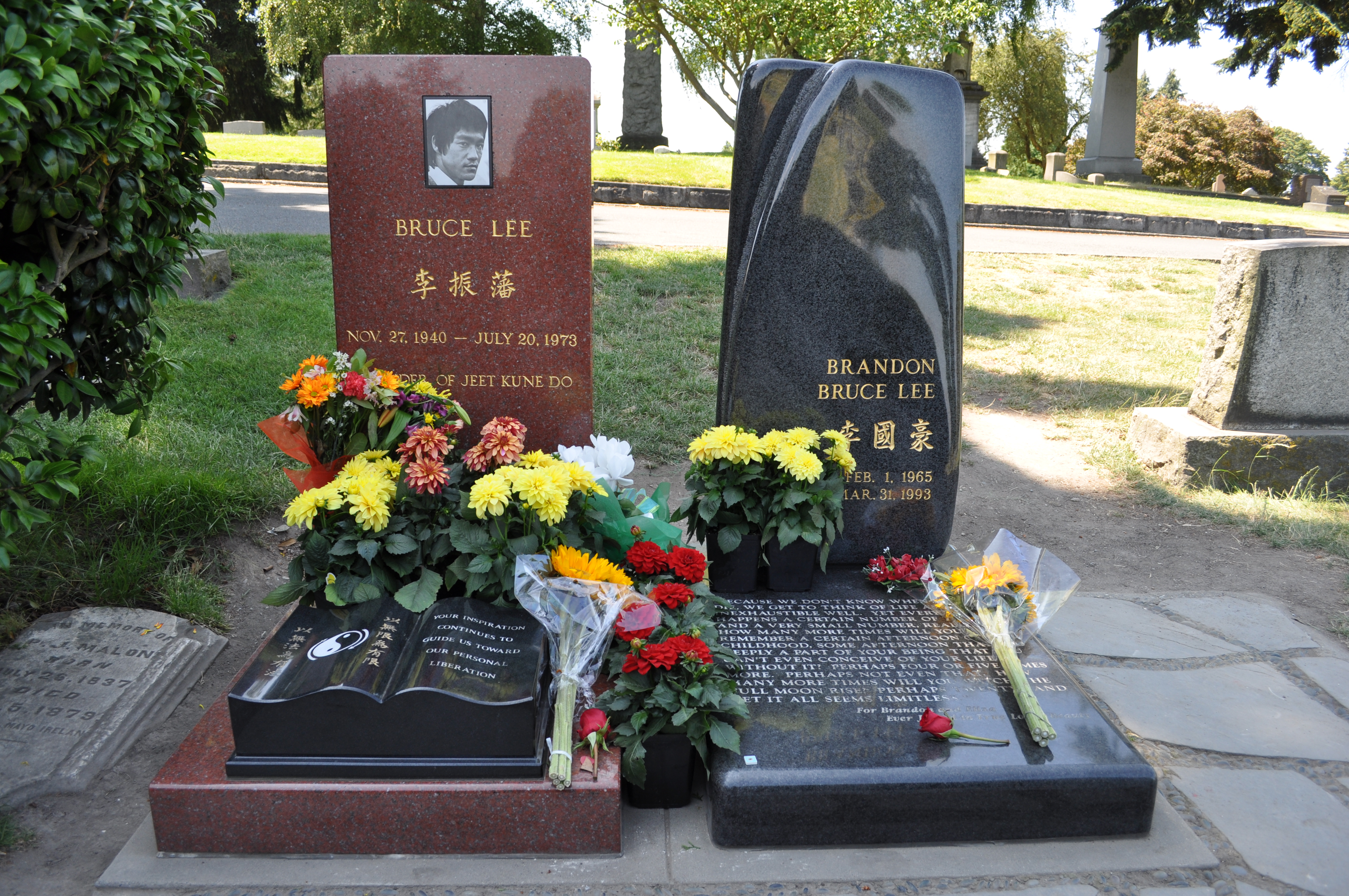 Graves of Bruce Lee and Brandon Lee, Lake View Cemetery, Seattle, Washington.